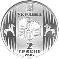 Coin of Ukraine, commemorating the writer Ulas Samchuk